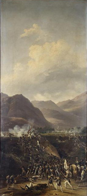 Charles-Caïus Renoux, Prise du Camp de Boulou,1er Mai 1794--(1836, Musée National des Châteaux de Versailles et de Trianon)